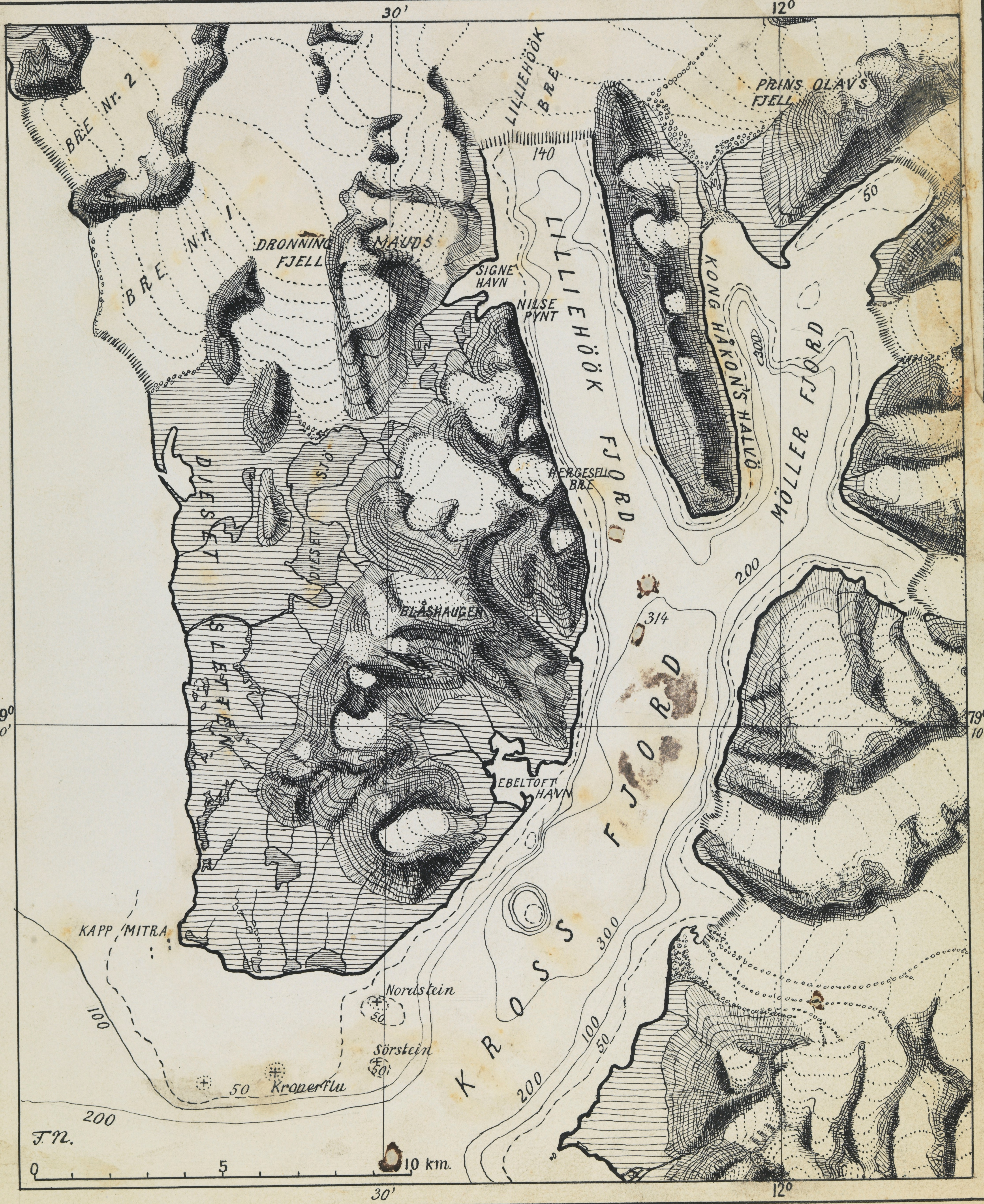 Pen and ink drawing. Map of Krossfjord and its surroundings drawn based on Gunnar Isachsen's maps. The depth curves in the fjord have been drawn in for 50, 100, 200 and 300 meters, the altitude curves on land for every 50 meters.